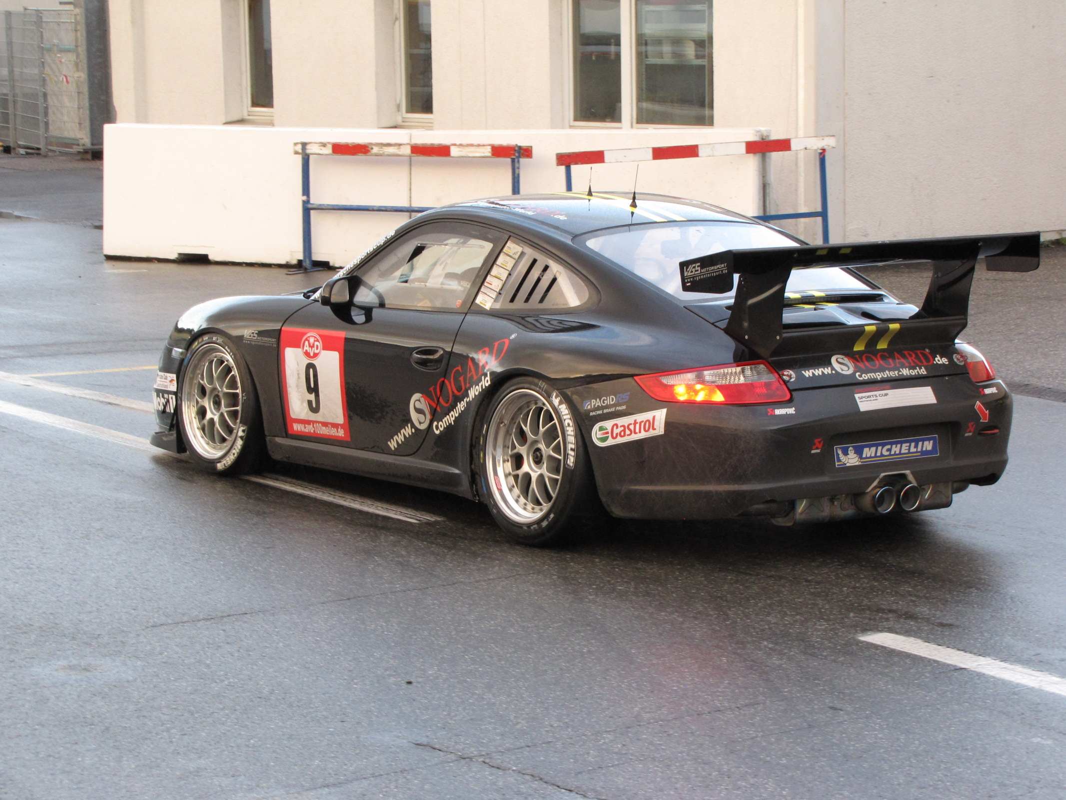 pseudonym driver Lucius Fox in a Porsche 997 GT3 Cup at Rheintal race in Hockenheim 2009